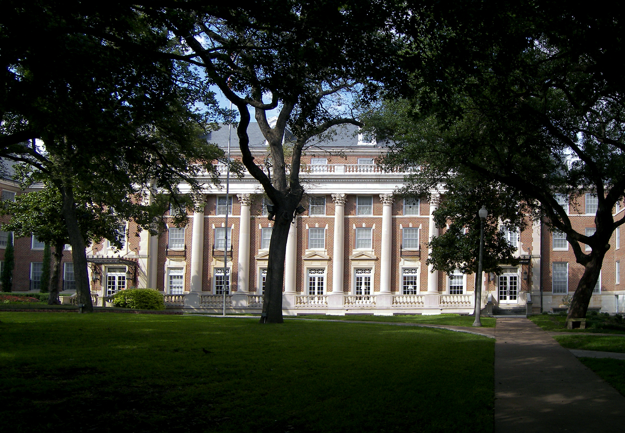 The Scottish Rite Dormitory is a historic private women's dormitory at the University of Texas at Austin built in 1922 by the Scottish Rite of Freemasons. The building was listed on the National Register of Historic Places on April 23, 1998.